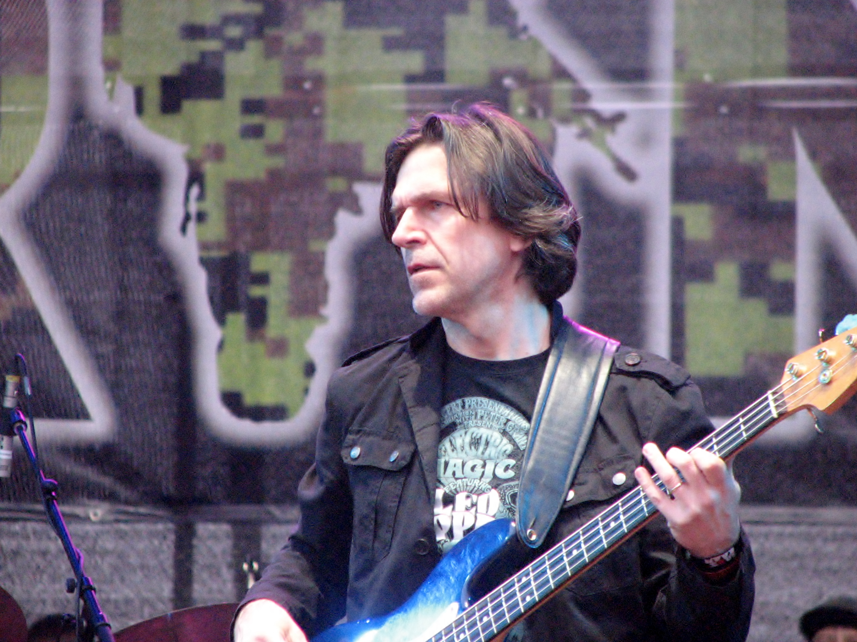 Raul Vaigla performing in a concert